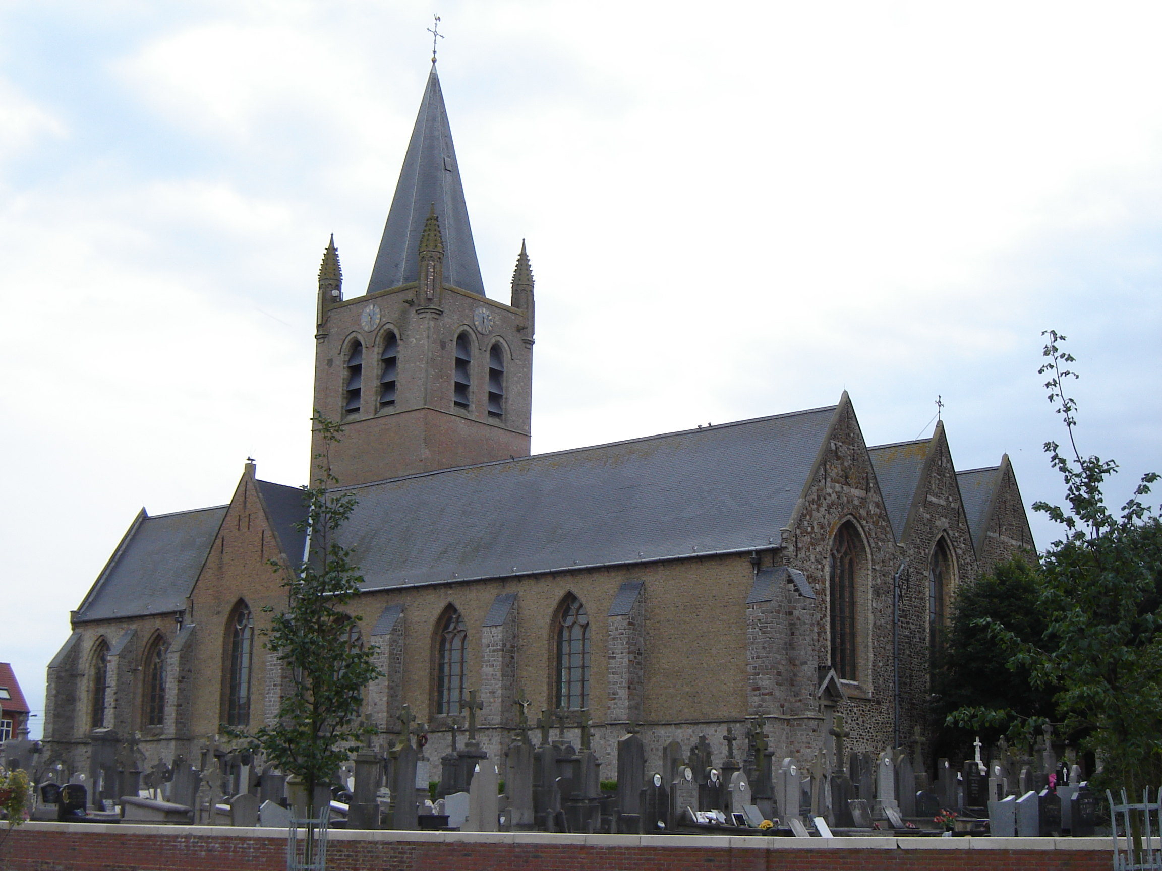 Church of Our Lady in Nieuwkerke, Heuvelland, West Flanders, Belgium.